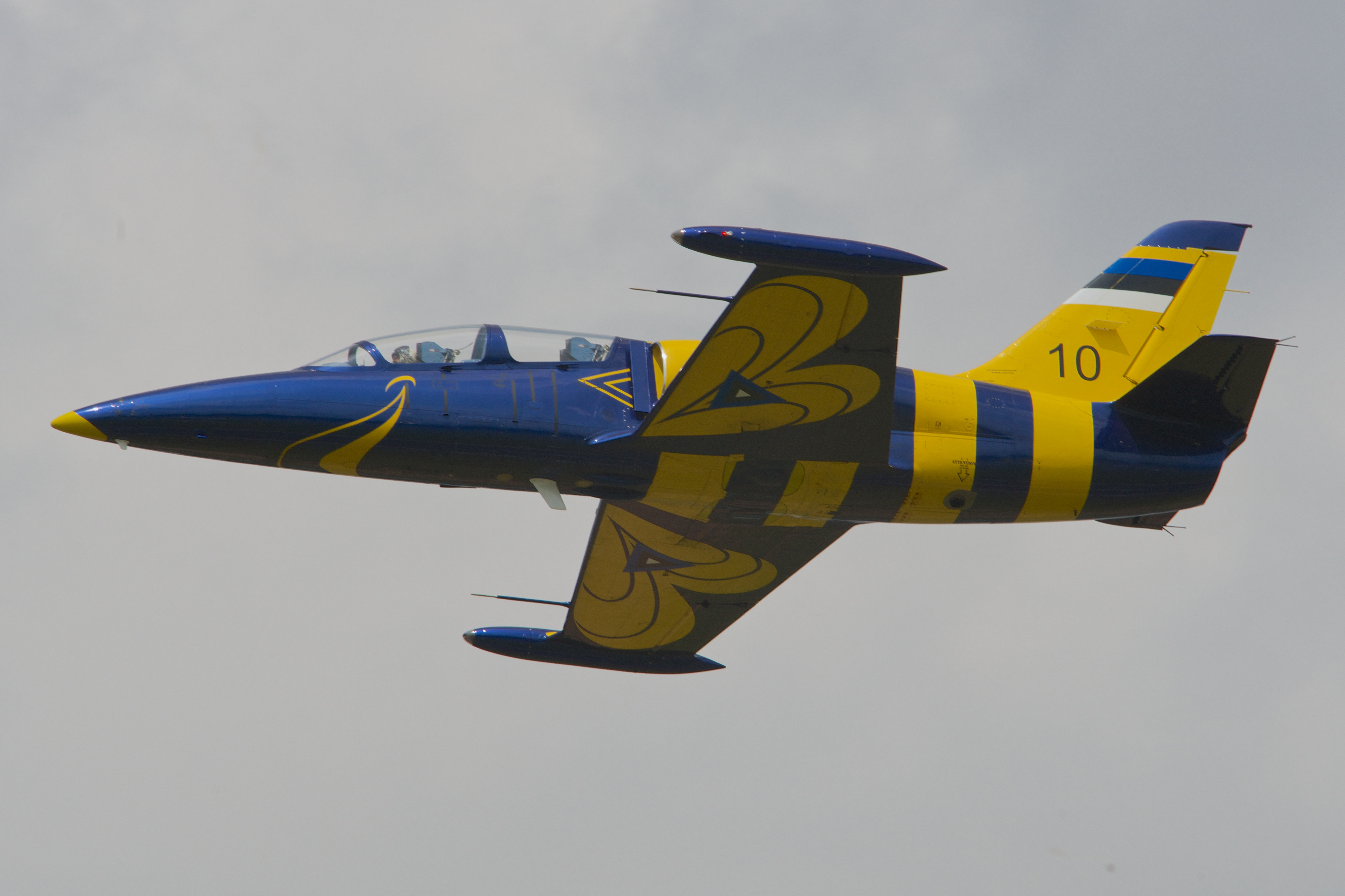 RIAT 2014